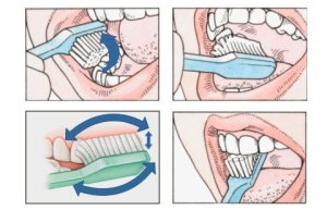 Cara Menyikat Gigi yang Baik dan Benar